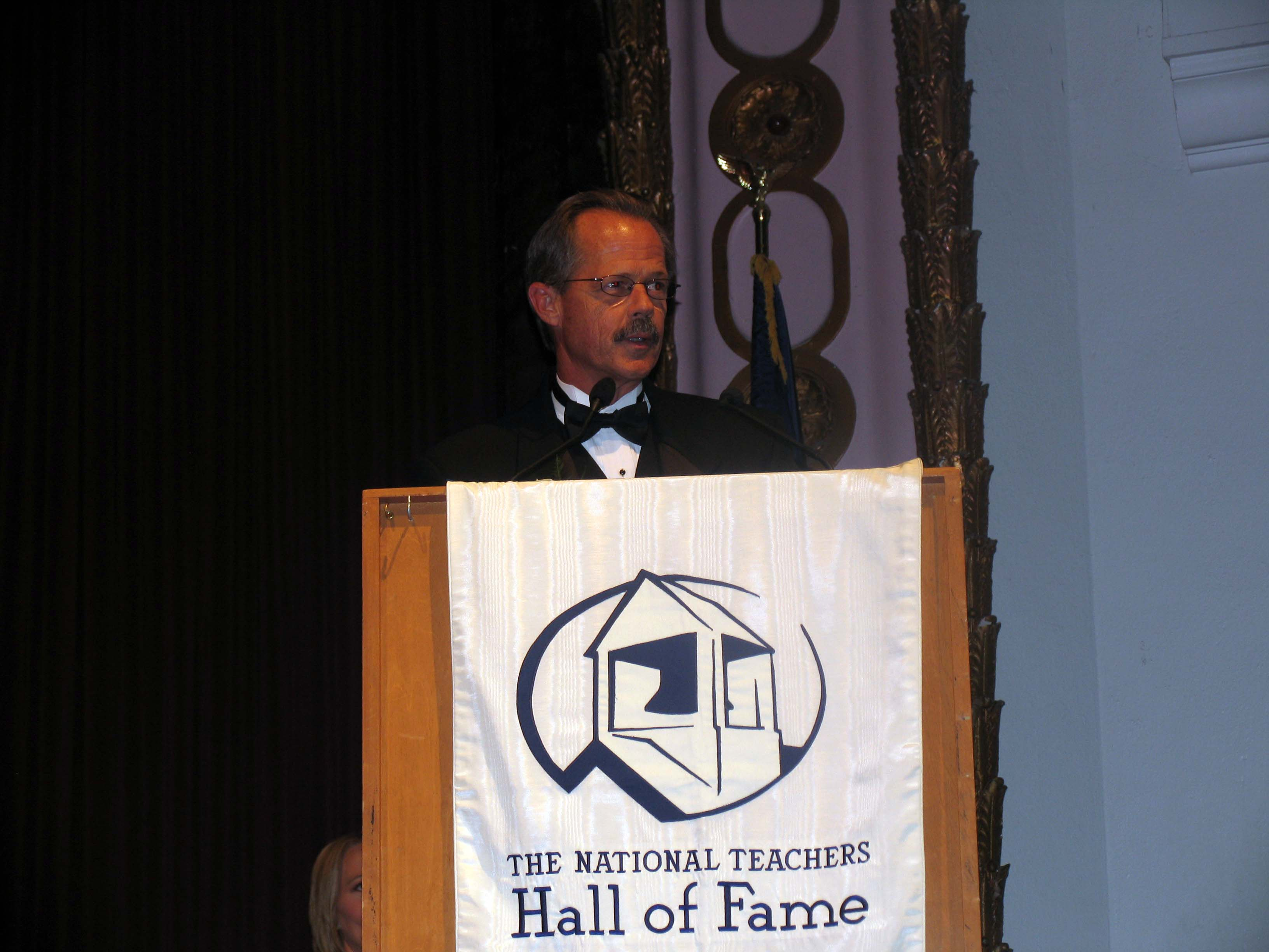 Joseph W. Underwood induction speech at the National Teachers Hall Of Fame